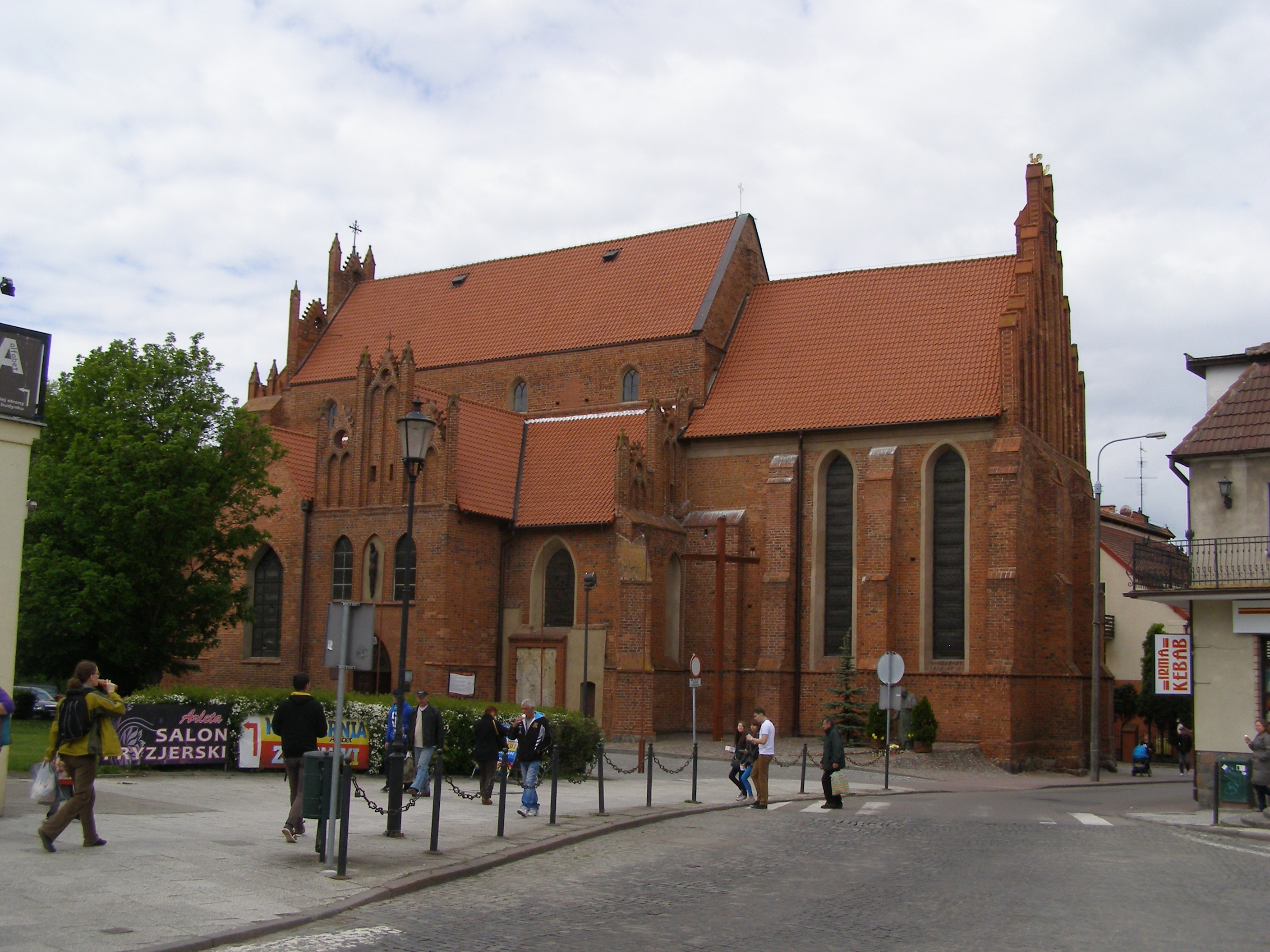 Starogard Gdański - St. Matthew's parish church